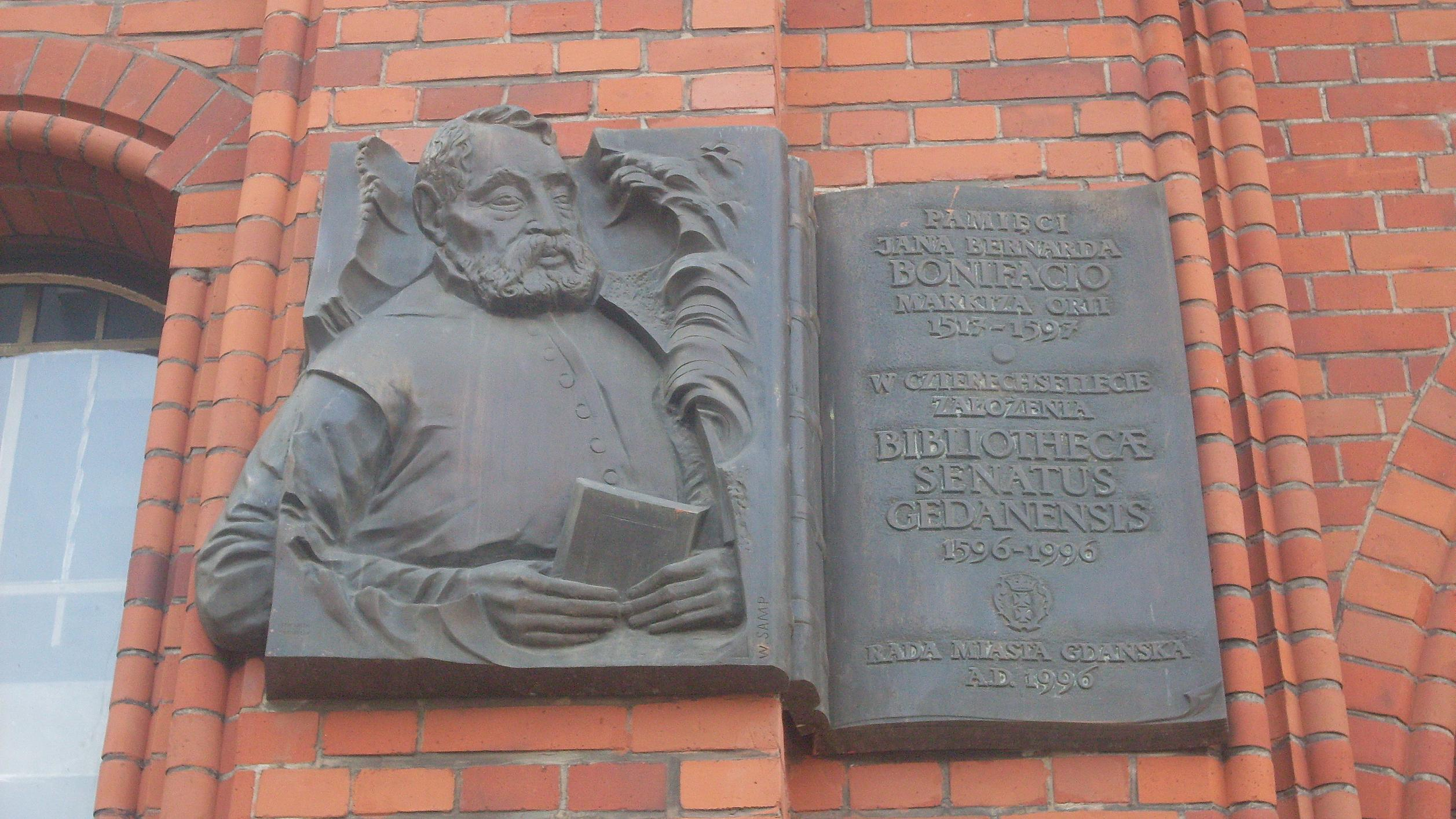 Plaque for Jan Bernard Bonifacio (Giovanni Bernardino Bonifacio) at Gdańsk Library of Polish Academy of Sciences. He was a founder of the Library Of The Town Council in Gdańsk (Bibliotheca Senatus Gedanensis).